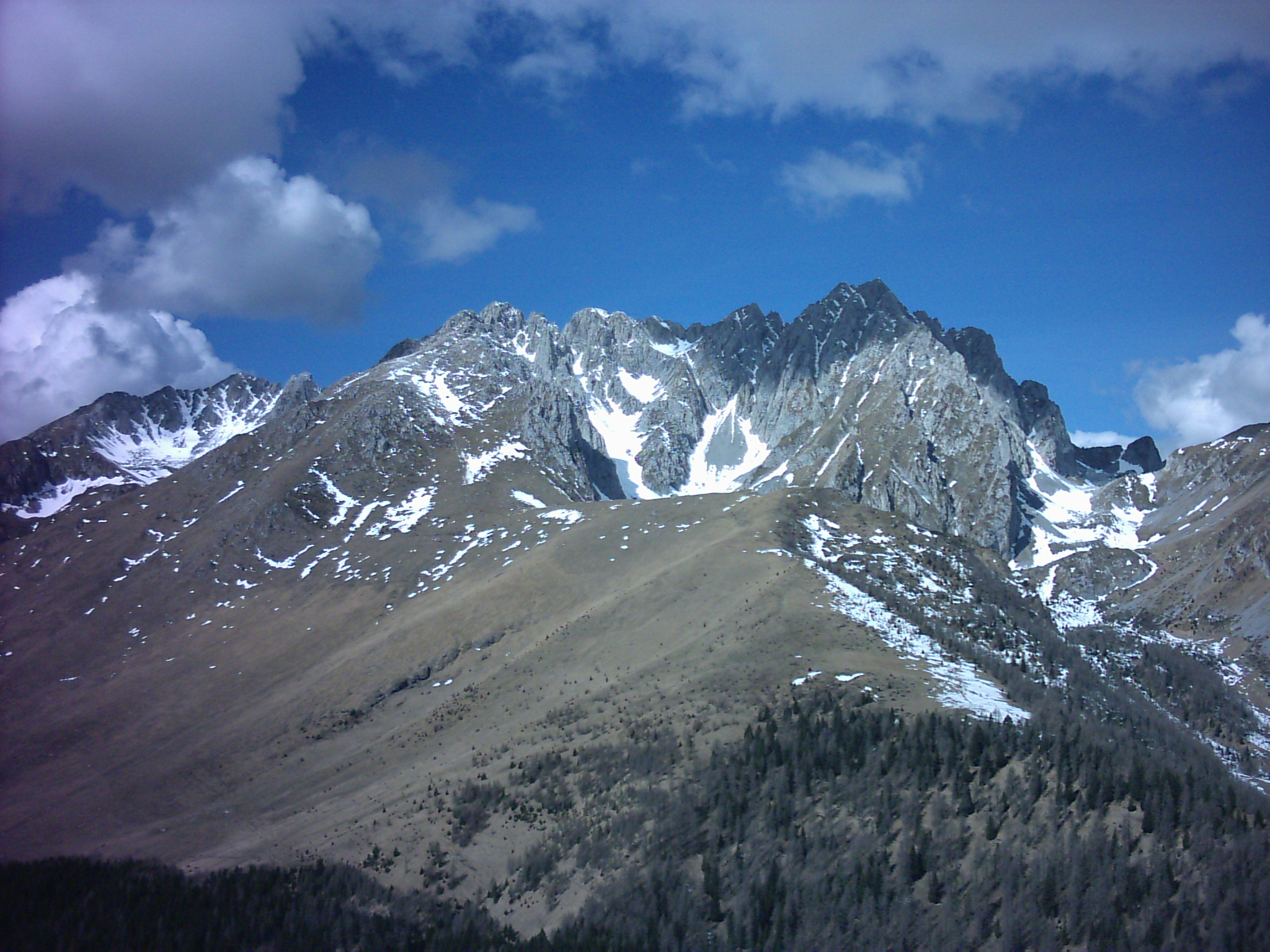 Pizzo Camino (2492 mt.) is a mountain of Orobic Alps, Lombardy.